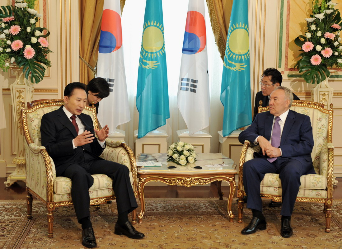 A summit between President Lee Myung-bak and Kazakh President Nursultan Nazarbayev